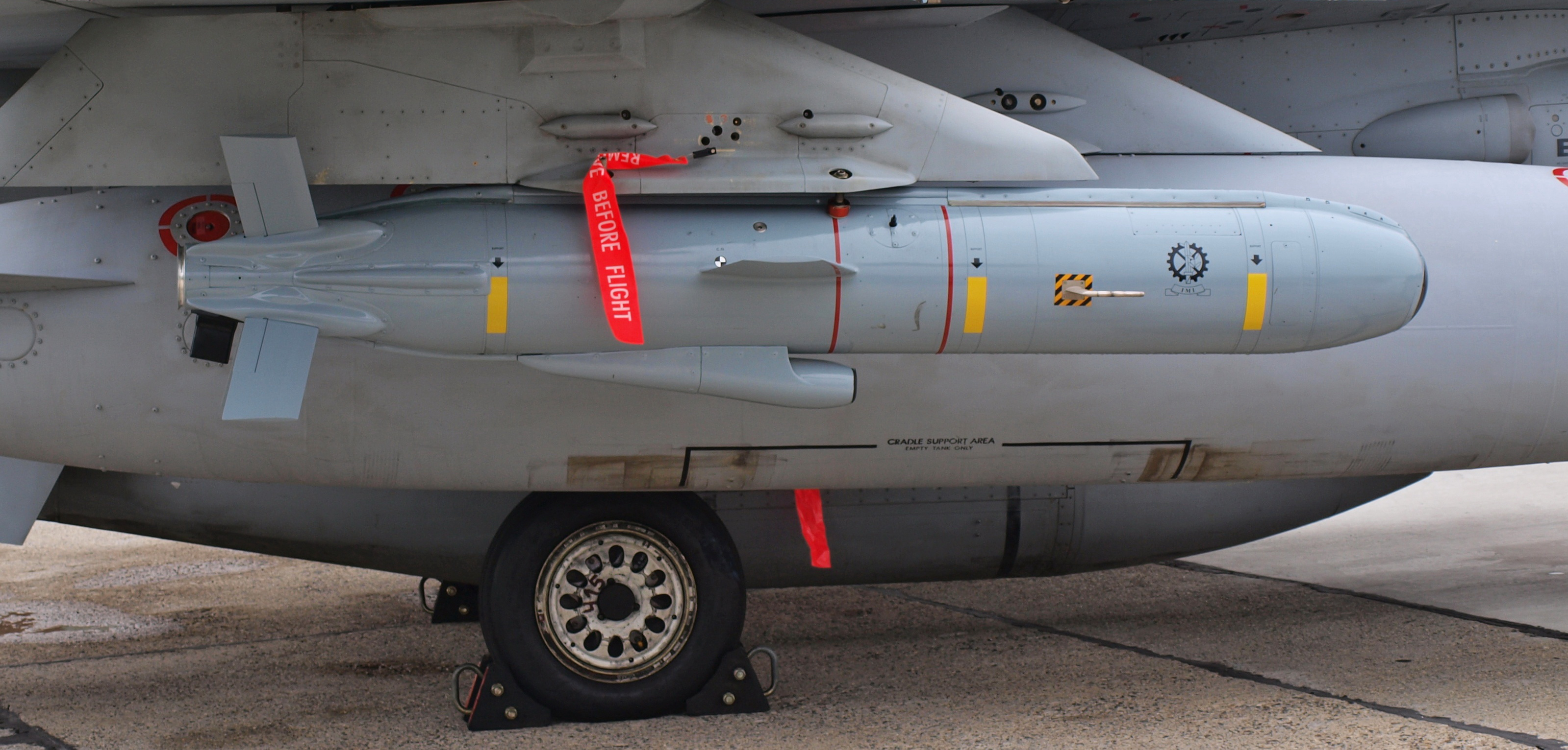 An Israeli IMI Delilah cruise missile under the wing fo an Israeli Air Force F-16I Soufa Fighter. Picture taken at Kecskeméti Repülőnap 2010.